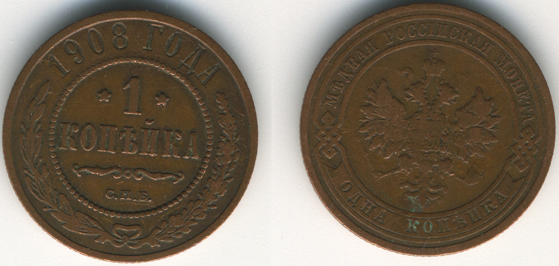 1 kopeika, 1908